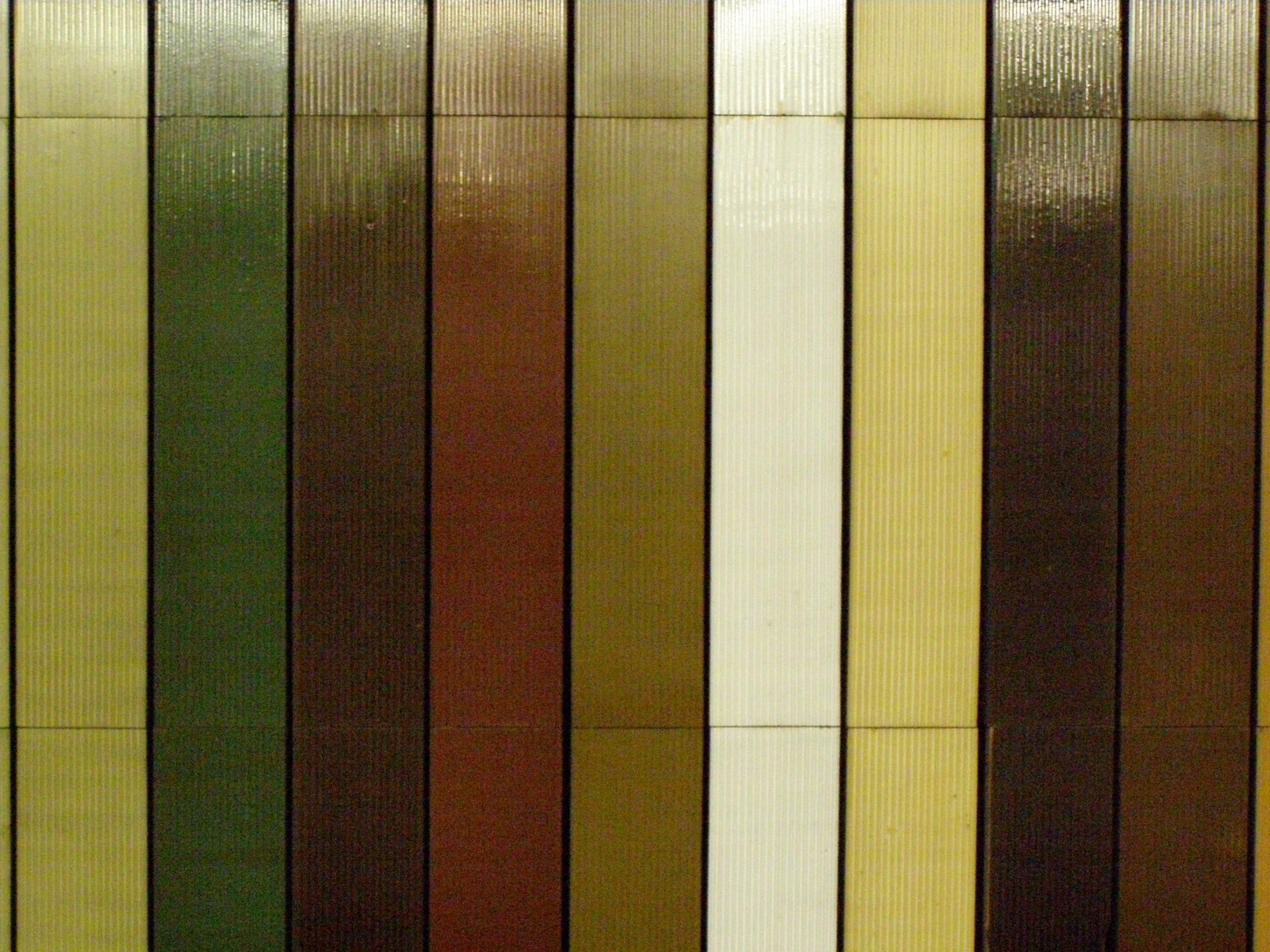 Dejvická metro station wall texture, line A, Prague, Czech Republic.